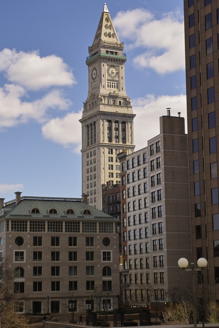 Picture of Custom House Tower in Boston, Massachusetts